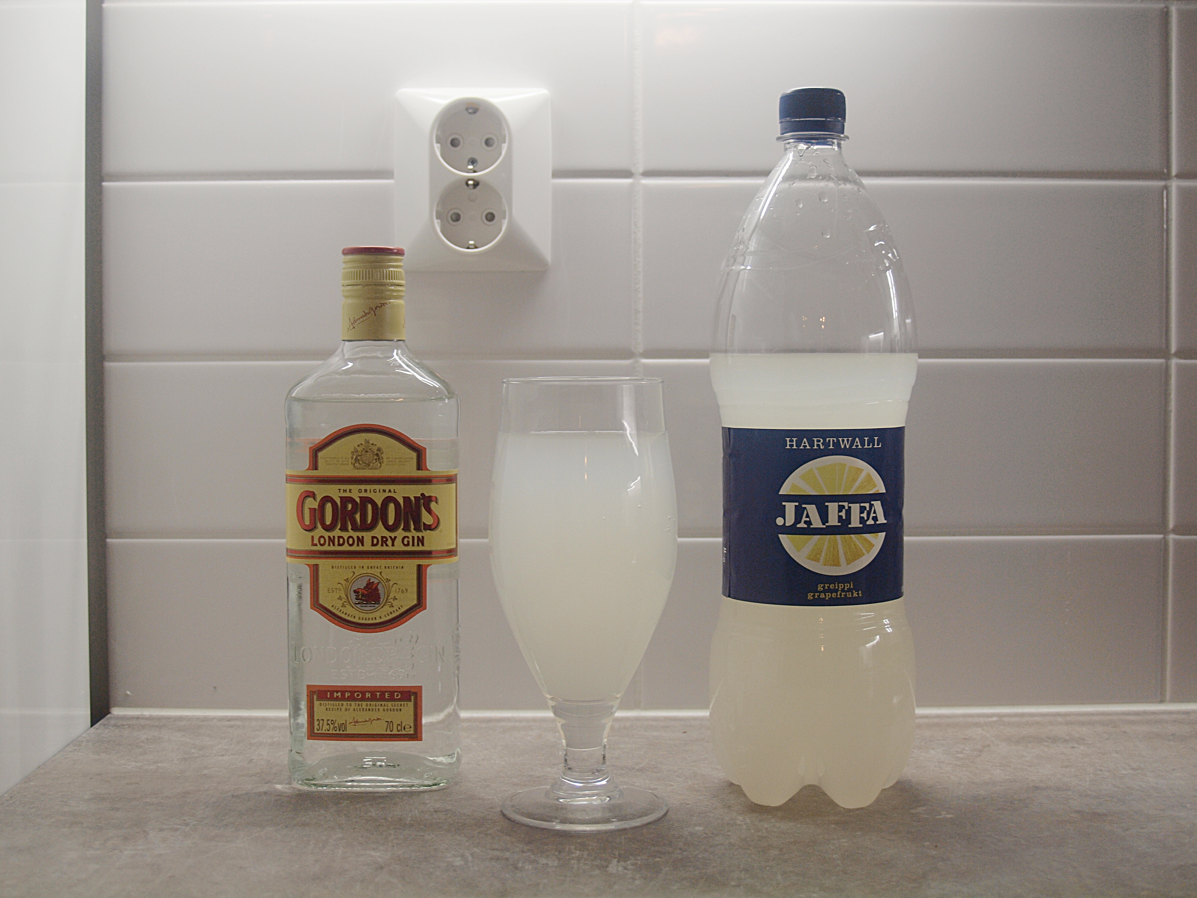 Self-made gin grapefruit long drink, trying to follow the same recipe as the drink company Hartwall originally made it for the 1952 Helsinki Olympics. About one measure of Gordon's Dry London Gin and five to six measures of Hartwall Jaffa grapefruit soft drink, poured in a glass and mixed together. This is different from most contemporary commercial alcoholic beverages sold under the "long drink" label in Finland, which are made from fermented apple juice and flavourings.